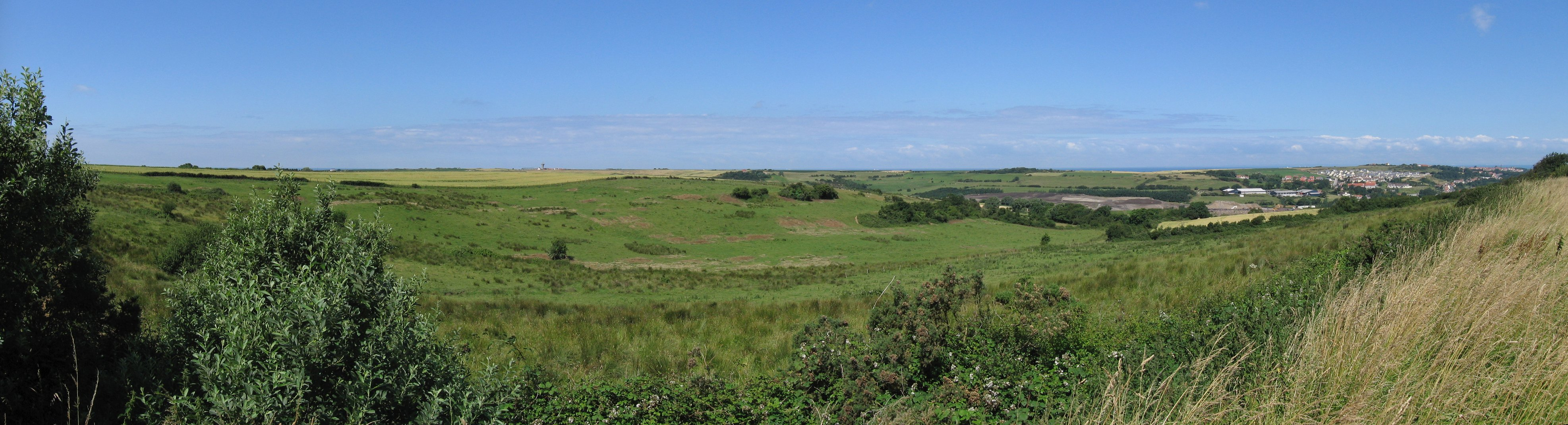 View of Saint-Etienne-au-Mont (Pas-de-Calais, France), seen from Ecault.